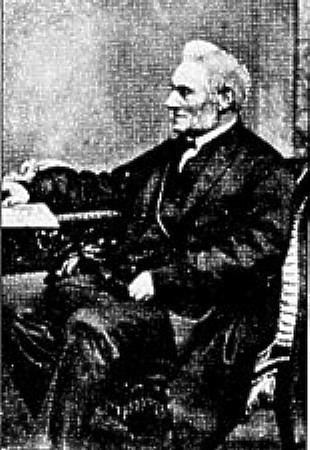 GILL, WILLIAM WYATT (1828-1896), missionary, was born on 27 December 1828 at Bristol, England, son of John Gill of Barton Hill and his wife Jane, daughter of Richard Wyatt, yeoman. Nurtured in Kingsland Congregational Chapel, Bristol, he became a member at 14 and his thoughts turned early to the ministry. After three years at Highbury College, London, and a year at New College, University of London (B.A., 1850), he was discouraged from missionary work, but his eagerness to accompany Rev. Aaron Buzacott to the Cook Islands met with approval and in June 1851 he was accepted by the London Missionary Society.